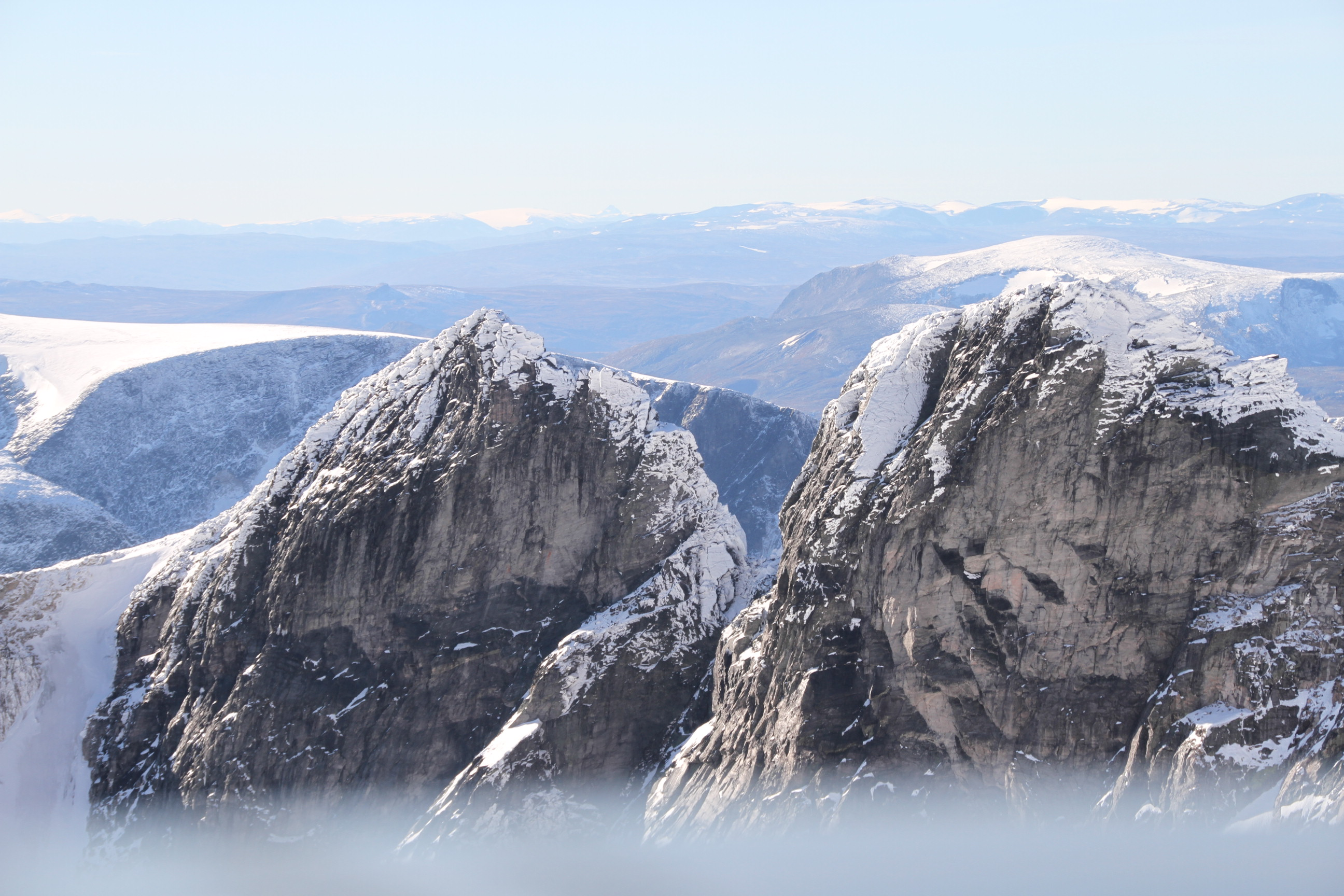 Image of the majestic mountain of Snøheta, Dovrefjell plateau, Central Norway.